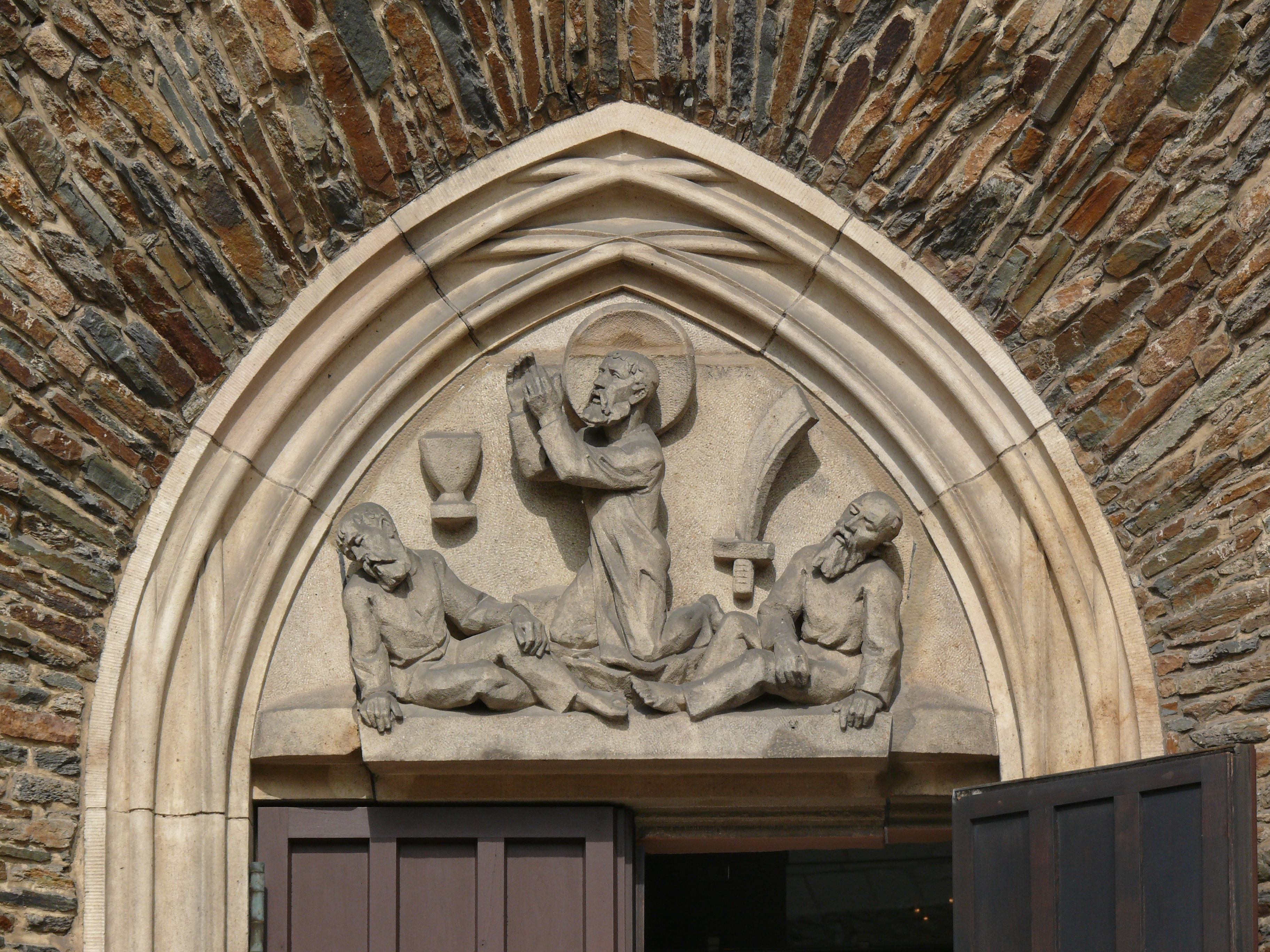 Portal of St. Anne's Church in Annaberg-Buchholz, germany.